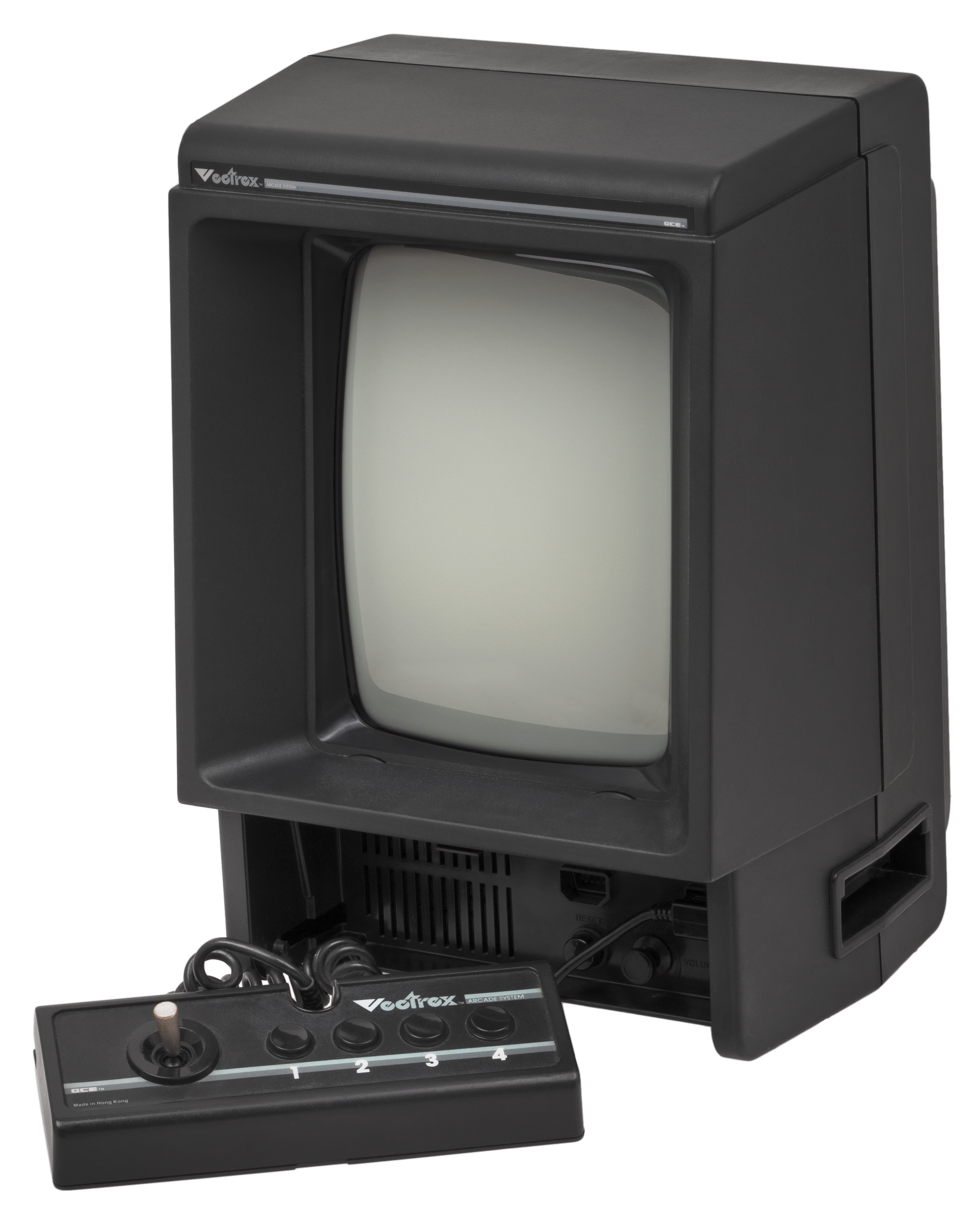 The Vectrex video game console, shown with controller. The Vectrex was released in America in 1982 and featured vector graphics thanks to its built-in monitor.